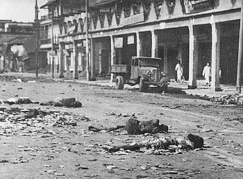 The victims of the 1946 riots in Calcutta (now Kolkata).